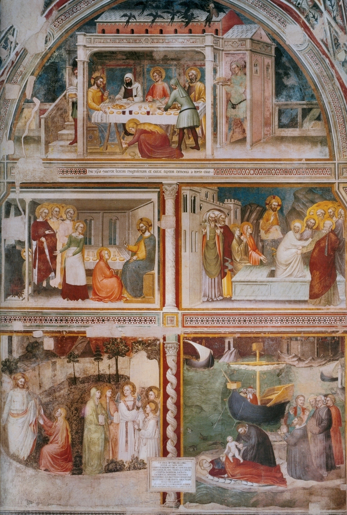 Rinuccini Chapel, South wall